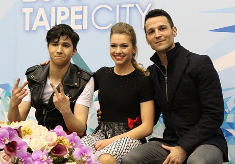 Marjorie Lajoie, Zachary Lagha, Romain Haguenauer - 2017 Junior Worlds